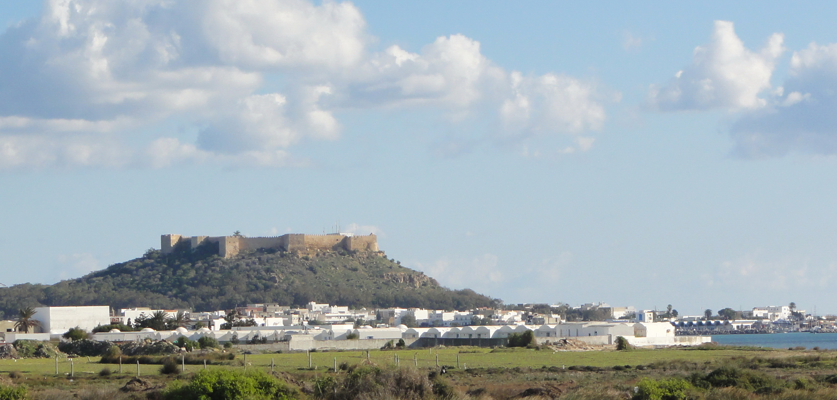 View of the Kelibia (Tunisia) citadel and harbor